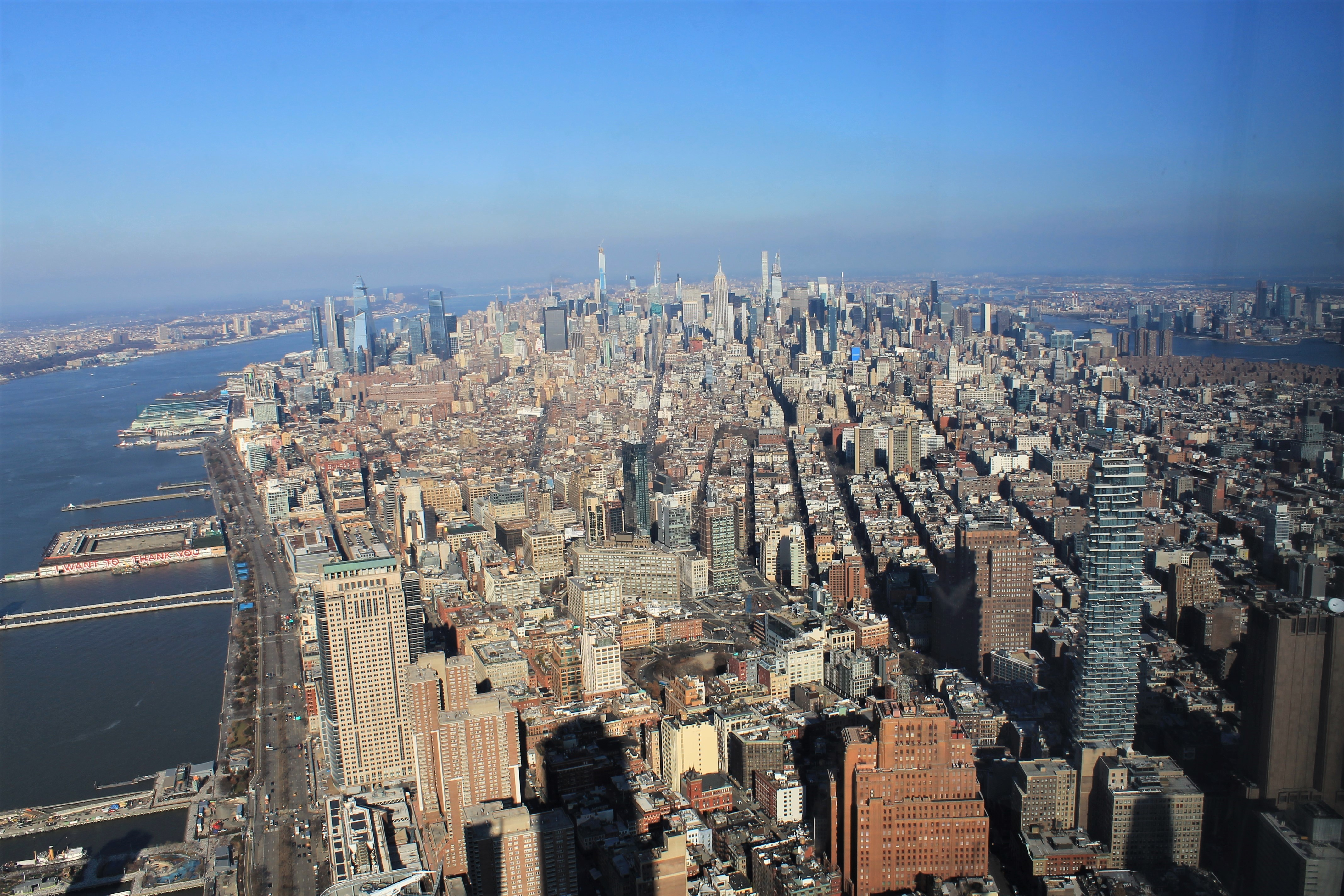 This is a photo of the view of upper Manhattan seen from the One World Trade Center Skypod.